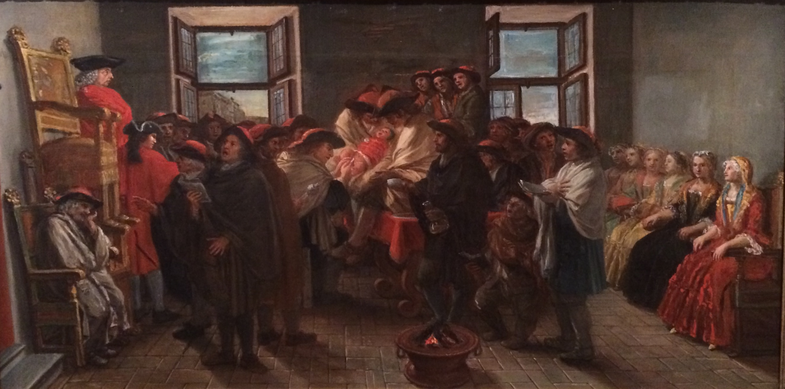 "A circumcision", Marco Marcuola, Venice, around 1870 - Musée d'Art et d'Histoire du Judaïsme